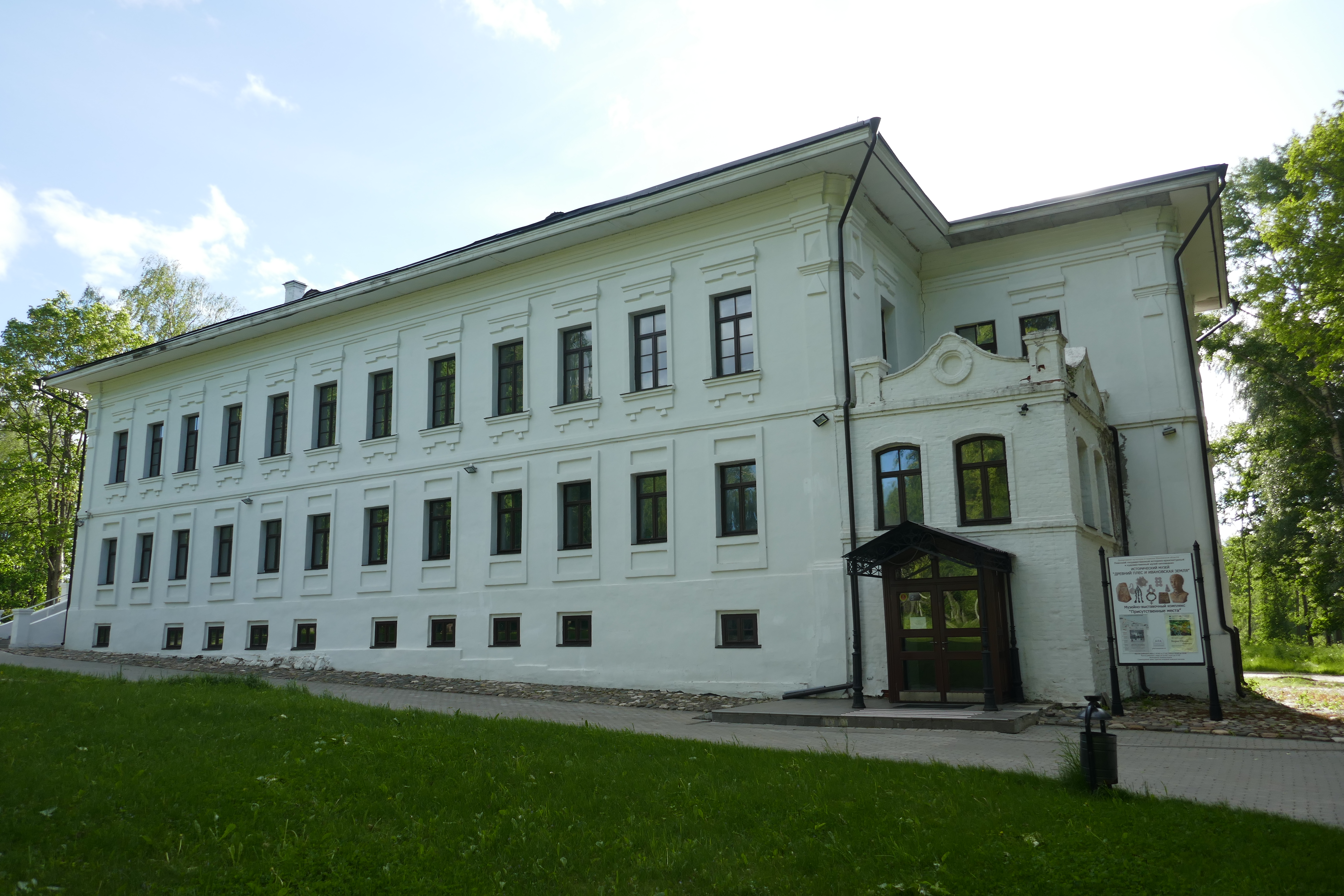 Plyos (Ivanovo Oblast) : State museum-reservation of history, architecture and art.